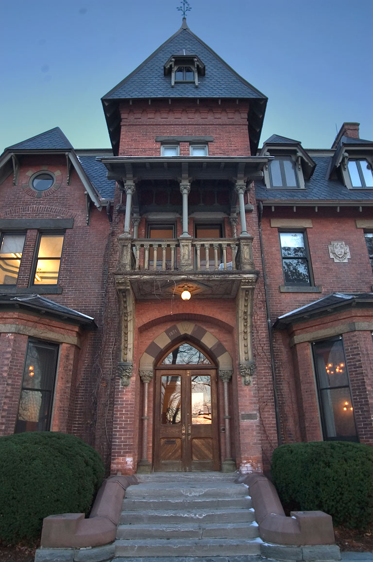 Andrew Dickson White House of Cornell University